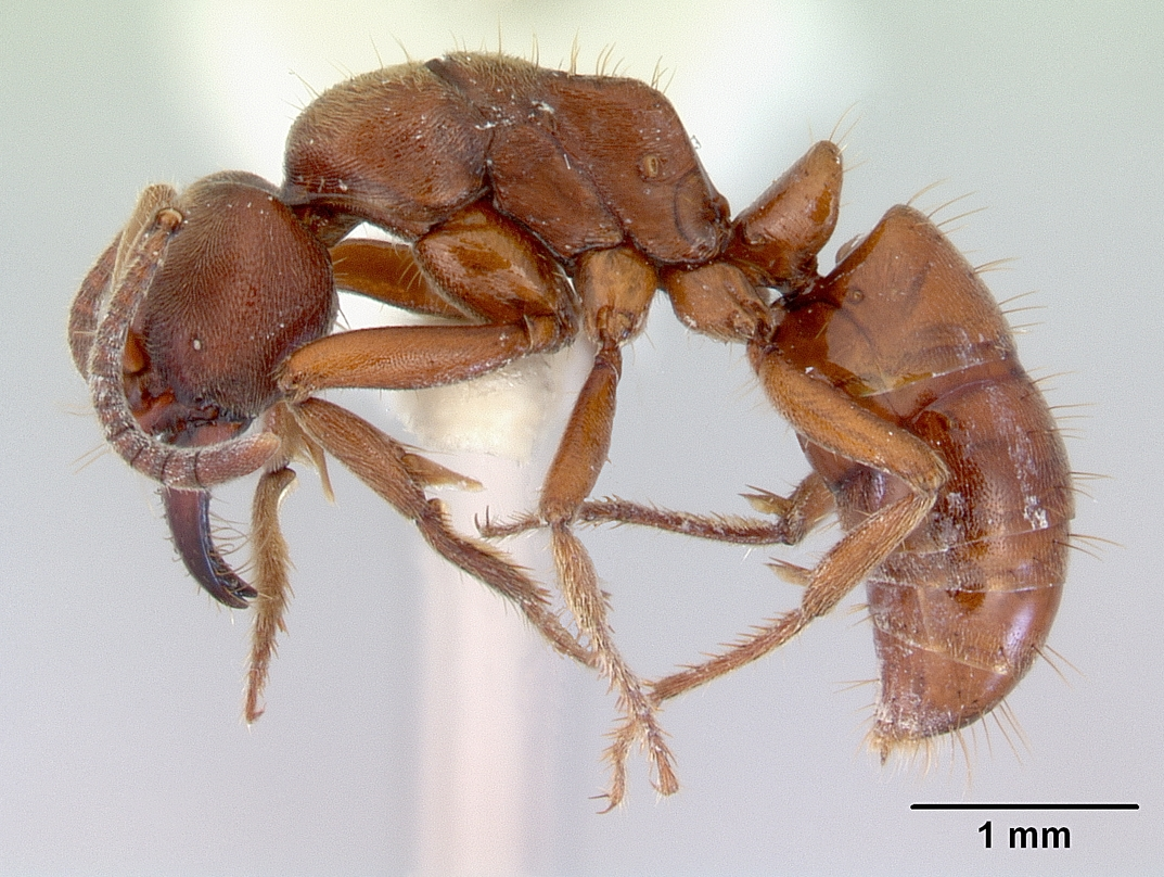 Profile view of ant Pachycondyla amblyops specimen casent0172431.